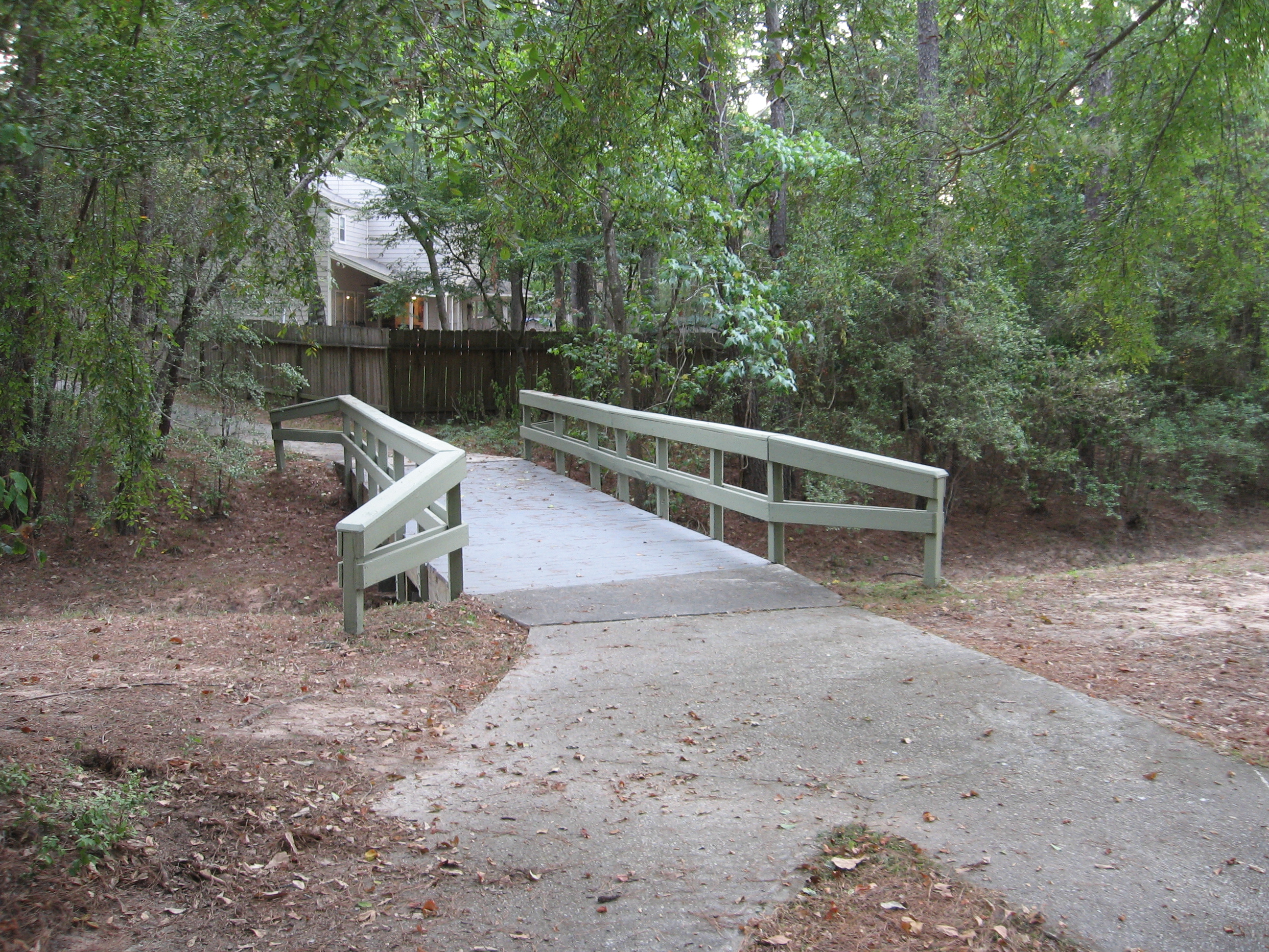 The Woodlands Texas